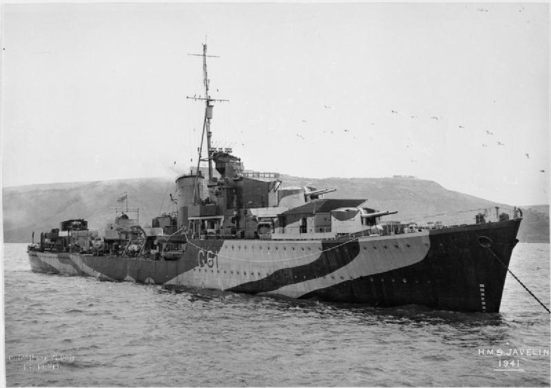 Photograph of British destroyer HMS Javelin.